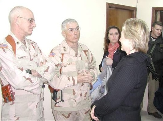 42nd Division Major General Joseph Taluto and 116th Brigade Combat Team commander Brigadier General Alan Gayhart greet Senator Hillary Clinton upon her arrival at Forward Operating Base Warrior.